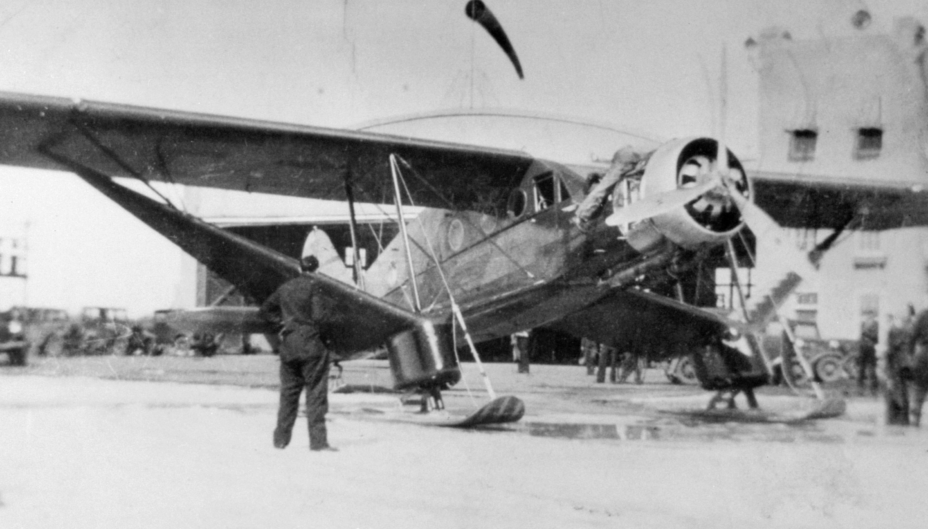 The Bellanca Aircruiser known as the 'Eldorado Radium Silver Express' -- that serviced Port Radium. Original caption: “Caption: Mackenzie Air Services Bellanca Aircruiser CF-AWR, the Silver Express, commissioned mainly to service the Eldorado Radium Mine and Blatchford Field. [1930s] 450.42 Kb 10.00 x 5.70 inches Credit: Edm. Air Museum Ctte./NWT Archives/ N-1979-003-0847”